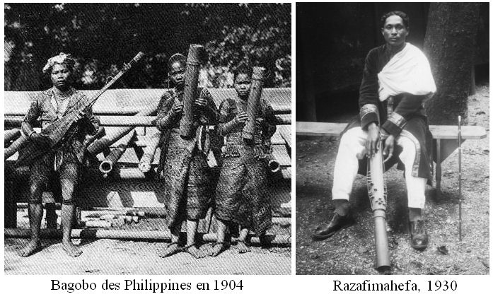 [Left photo:] Southern Philippines, 1904, a Bagobo man holds a kutiyapi and two Bagobo women hold s'ludoy tube zithers. [Right photo:] Madagascar Razafimahefa, player of "valiha" tube zither, circa 1930.